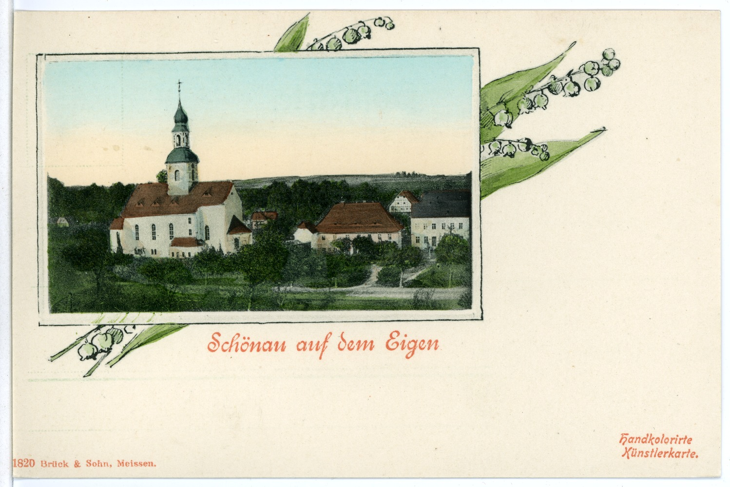 This postcard is from publisher Brück & Sohn in Meißen ( This postcard has a unique number 01820 and is available in a higher resolution at the publisher. This images was uploaded in a cooperation project between Wikipedians and the publisher.